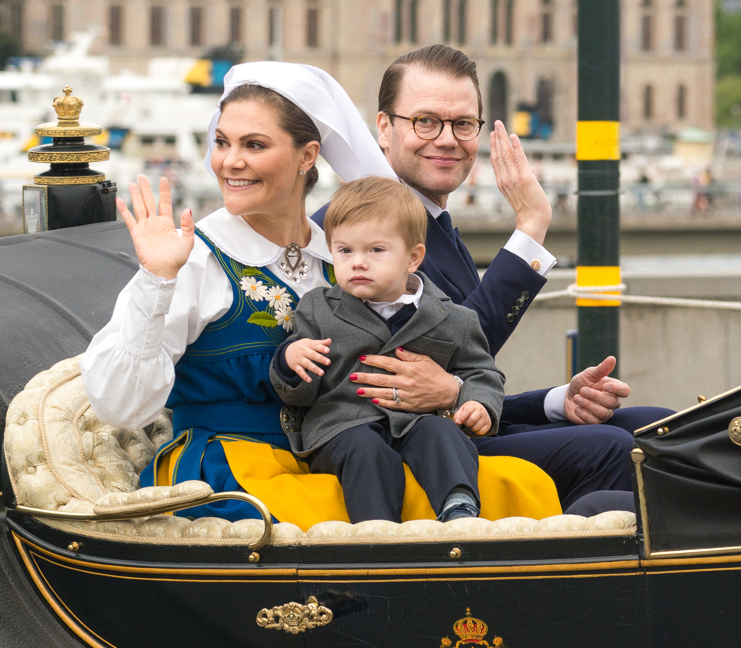 Crown Princess Victoria, Prince Oscar and Prince Daniel during the National Day of June 6, 2018.